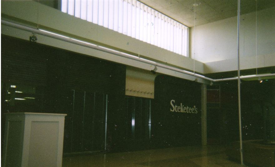 Former Steketee's at Maple Hill Mall, image taken 2004 by myself. Store closed 2000 and was demolished shortly after picture was taken.